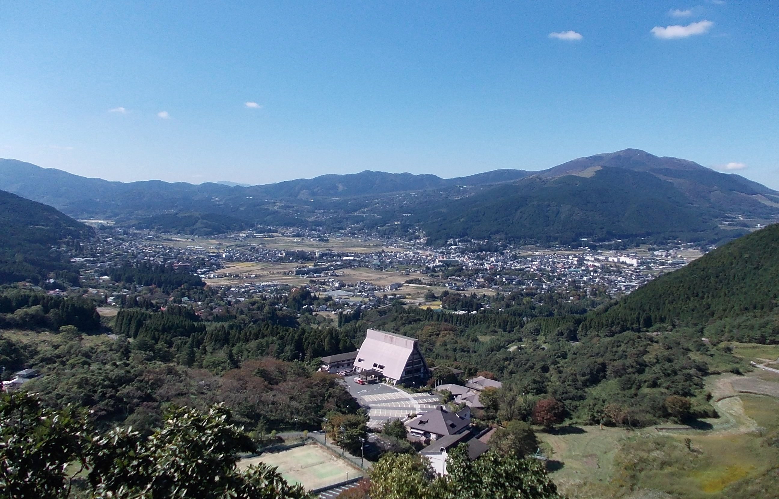 Panorama view of Yufuin from Sagiridai Viewpoint. Taken on 18 October 2011.